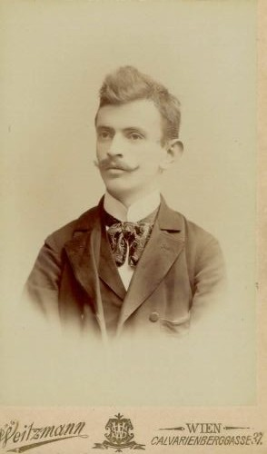 Ivan Cankar (1876-1918), slovene writer.